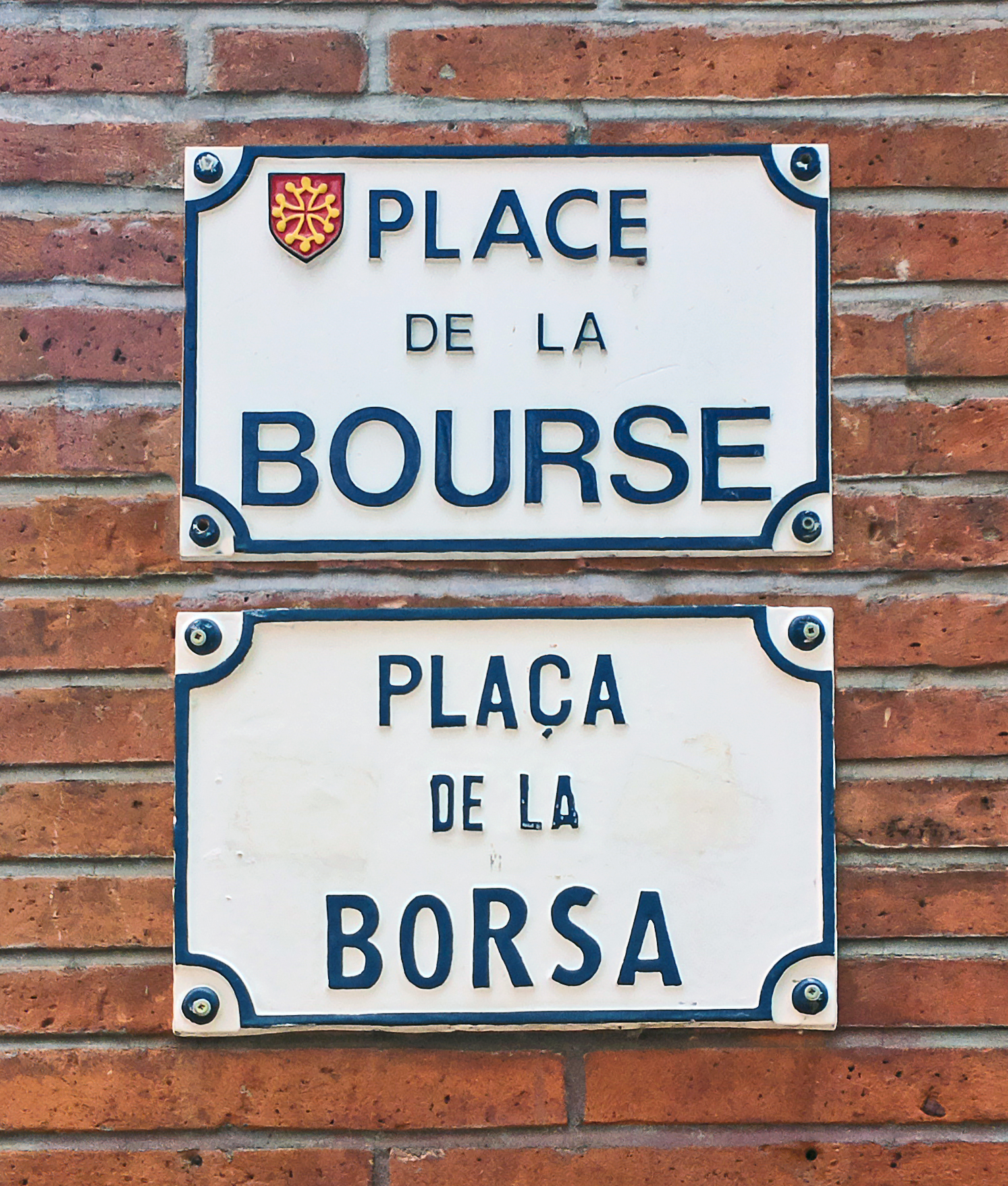 Street name sign in Toulouse. They have the particularity of being: in French and Occitan. La place de la Bourse.